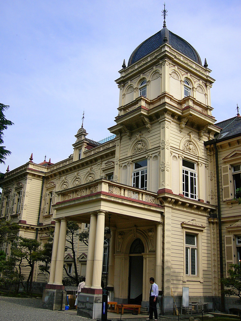 Old Iwasaki House in Taito-ku, Tokyo, Japan